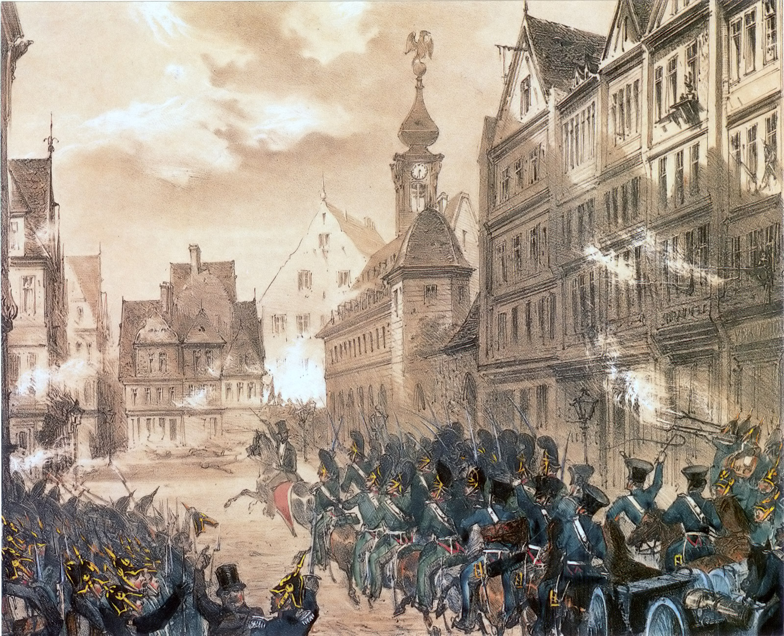 Frankfurt on the Main: Escalade of the barricade at the Konstablerwache (Konstabler guard post); the contemporary depiction shows the arrival of the hessian artillery at the Zeil in the evening of September 18, 1848. In the background the barricade as well as the baroque Loewenapotheke (Lion's apothecary) in the Allerheiligengasse are visible. After futile negotiations the artillery took place and gunned the barricade down.